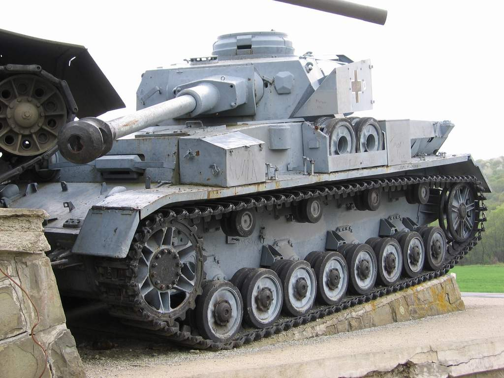 One of memorials of the Dukla Pass battle of 1944, near Ladomirova, on the Slovak side of the Dukla Pass. Detail - the German tank (PzKpfw IV J).